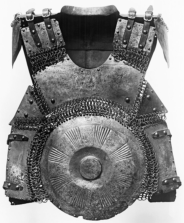 Body Armor Artist Anonymous (Turkey)Unknown authorTitle Body ArmorDescription